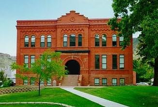 Engineering Hall, built in 1894, is the oldest building on the Colorado School of Mines campus.